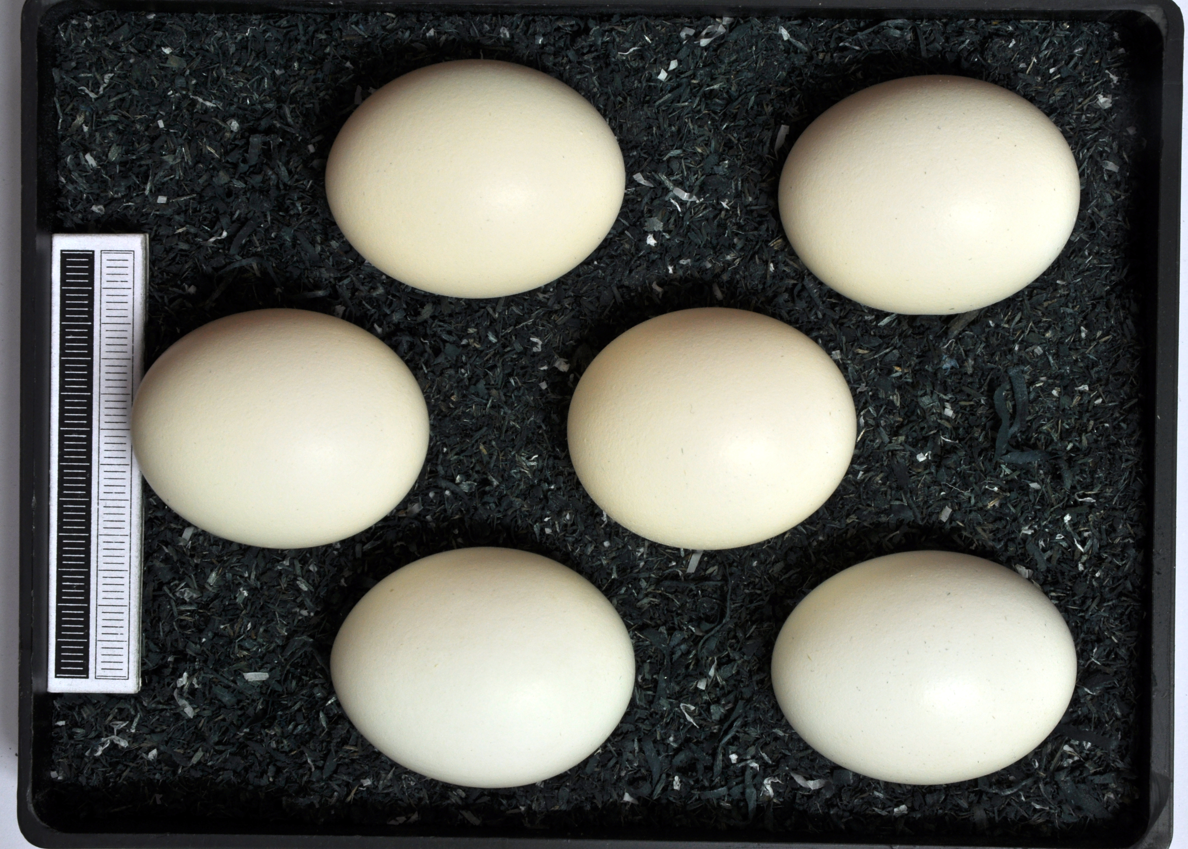 Long-eared owl Asio otus, egg, Coll. Museum Wiesbaden, Origin: Lake Neusiedl, Austria, 17.04.1973, leg. W. Abelmann